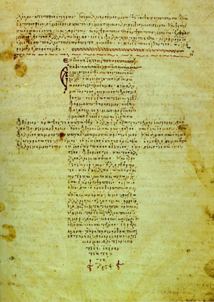 "Twelfth-century Byzantine manuscript the oath was written out in the form of a cross, relating it visually to Christian ideas".